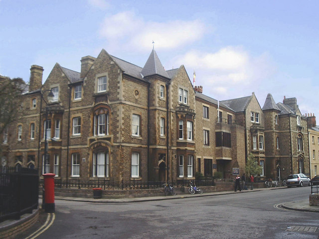 Rewley House Rewley House stands on the corner of Wellington Square and St John Street in Oxford, England, and is the headquarters of the Department of Continuing Education, an adult education facility run by the University of Oxford as part of Kellogg College. The house can briefly be seen in the Inspector Morse episode "The Wench is Dead".